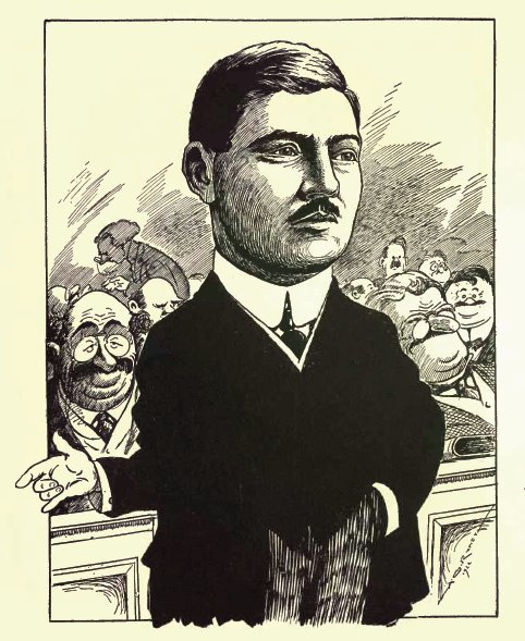 Charles Gavan Power Publisher: Montreal : Pr. by Southam Press